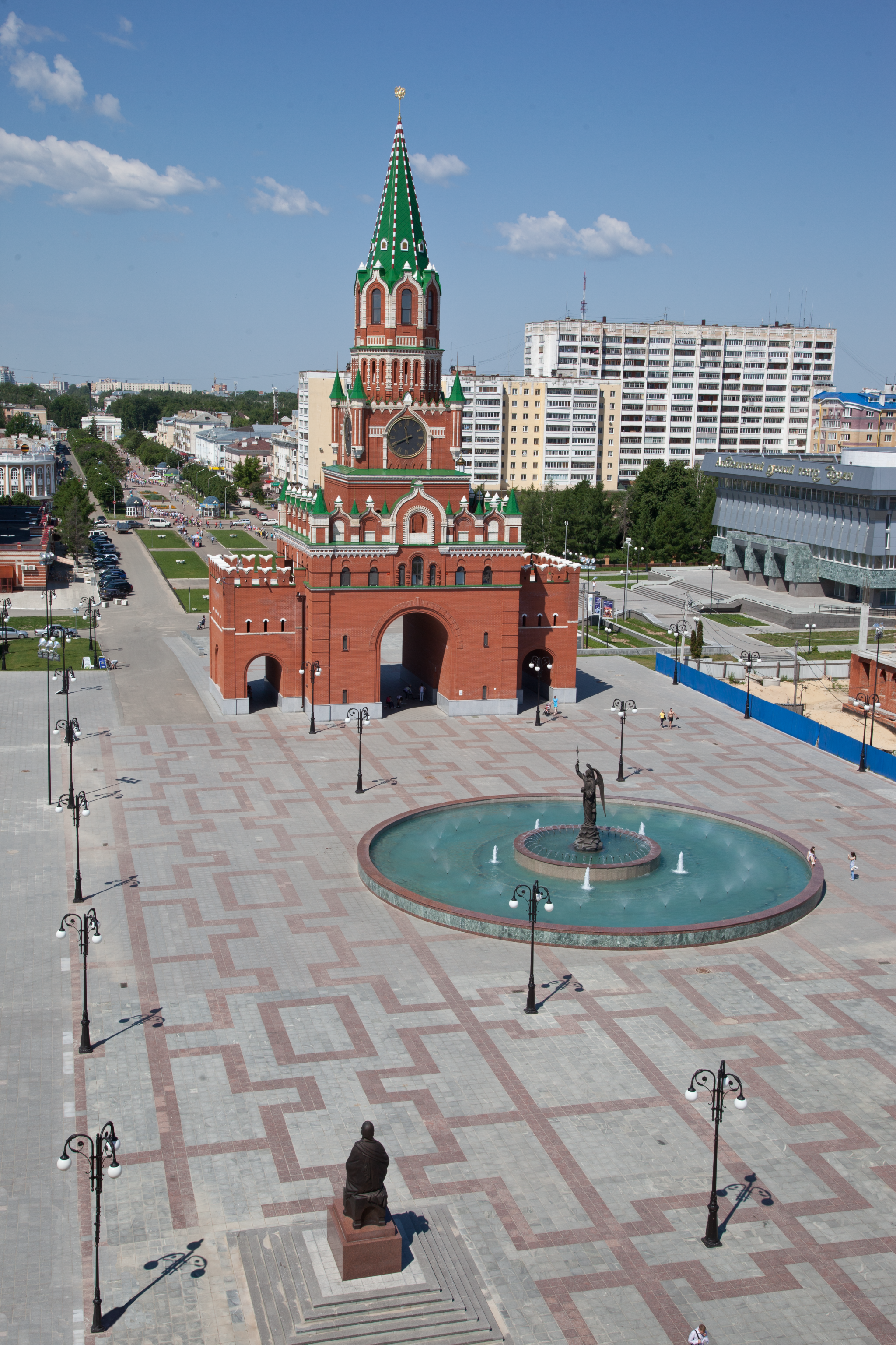 Revolyutsii Square with Annunciation Tower and Archangel Gabriel Fountain, Yoshkar-Ola, Mari El, Russia